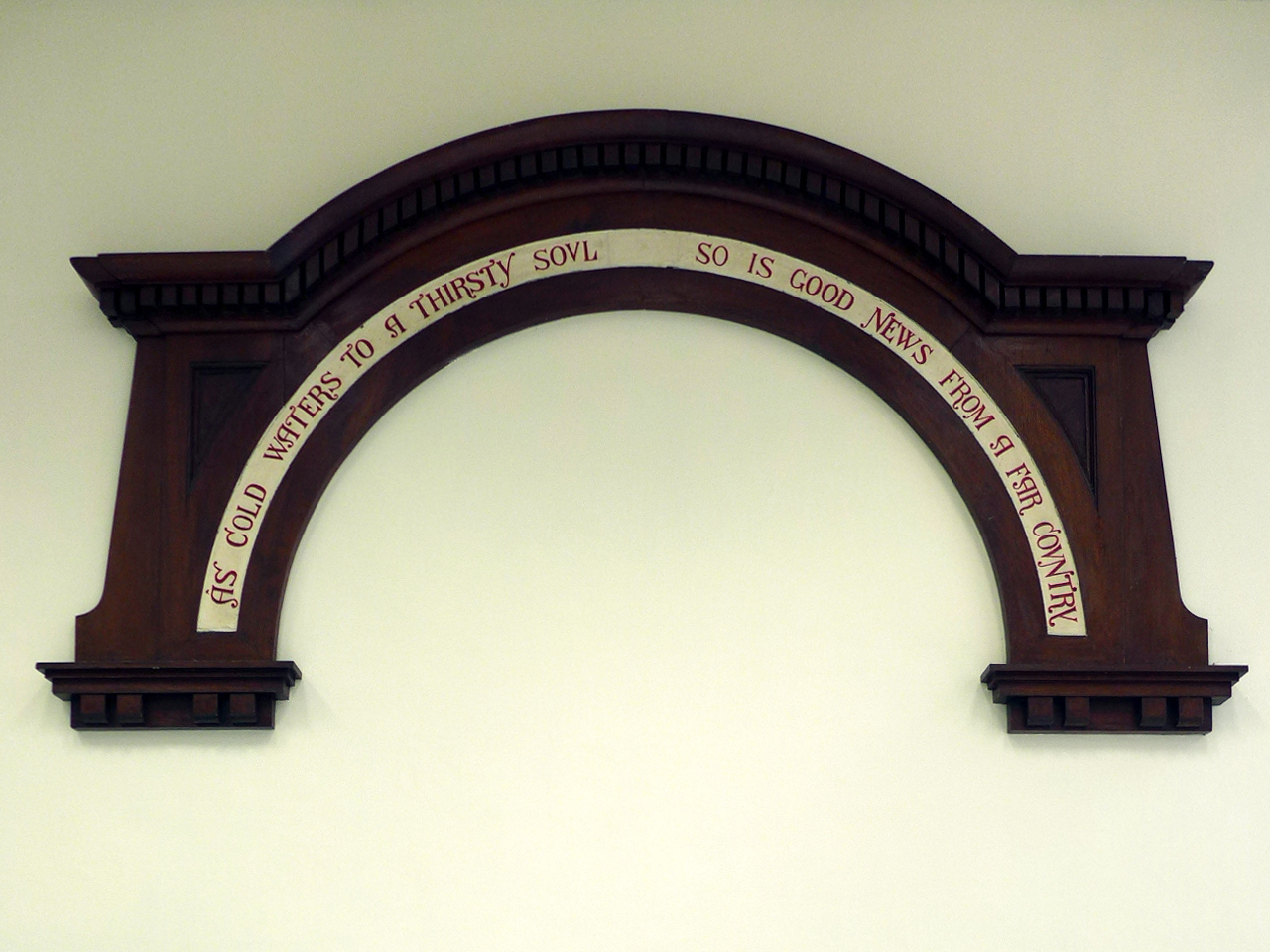 General Post Office old decoration